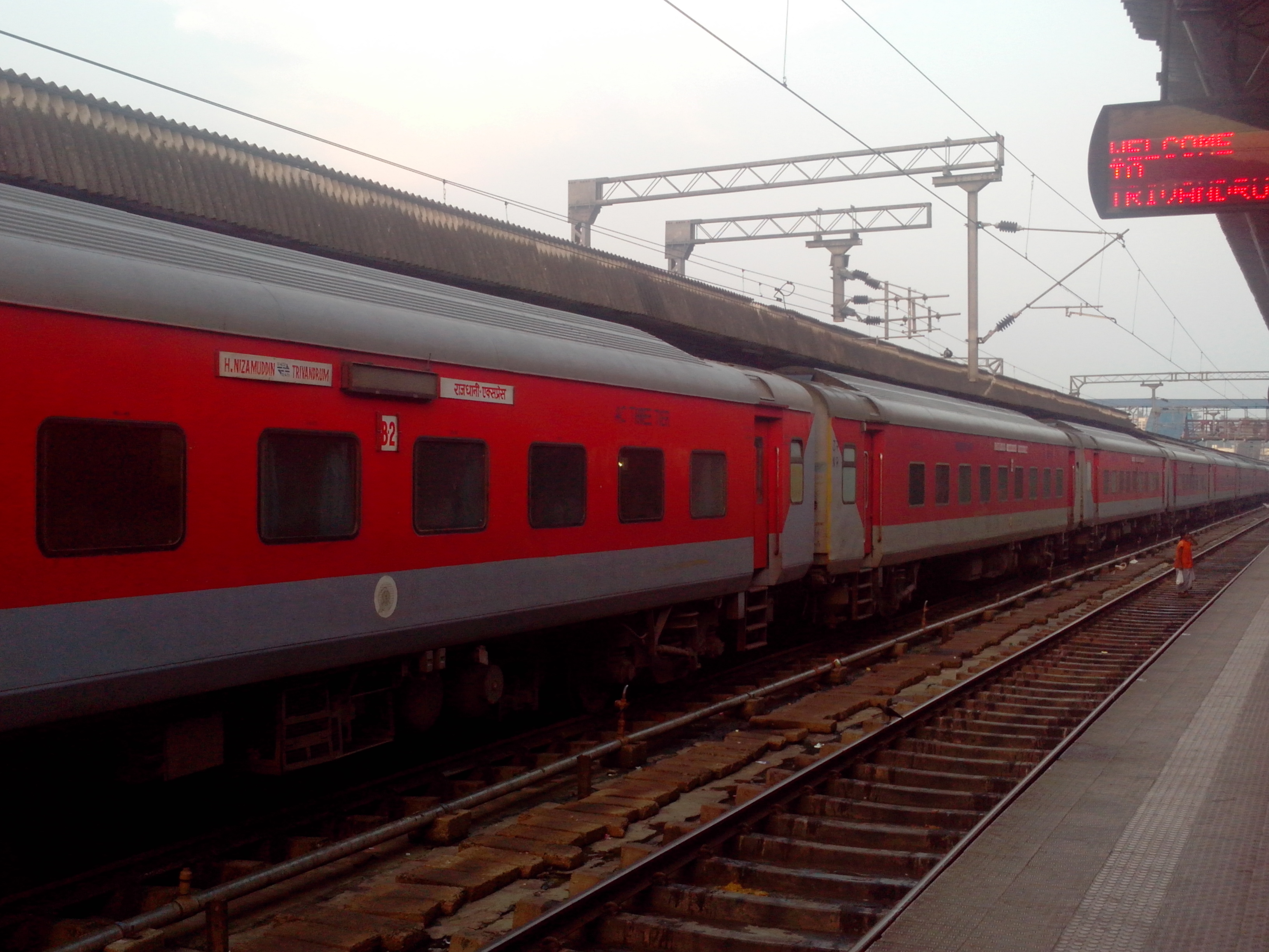 LHB rake of Trivandrum Rajadhani Express at Thiruvananthapuram Central railway station